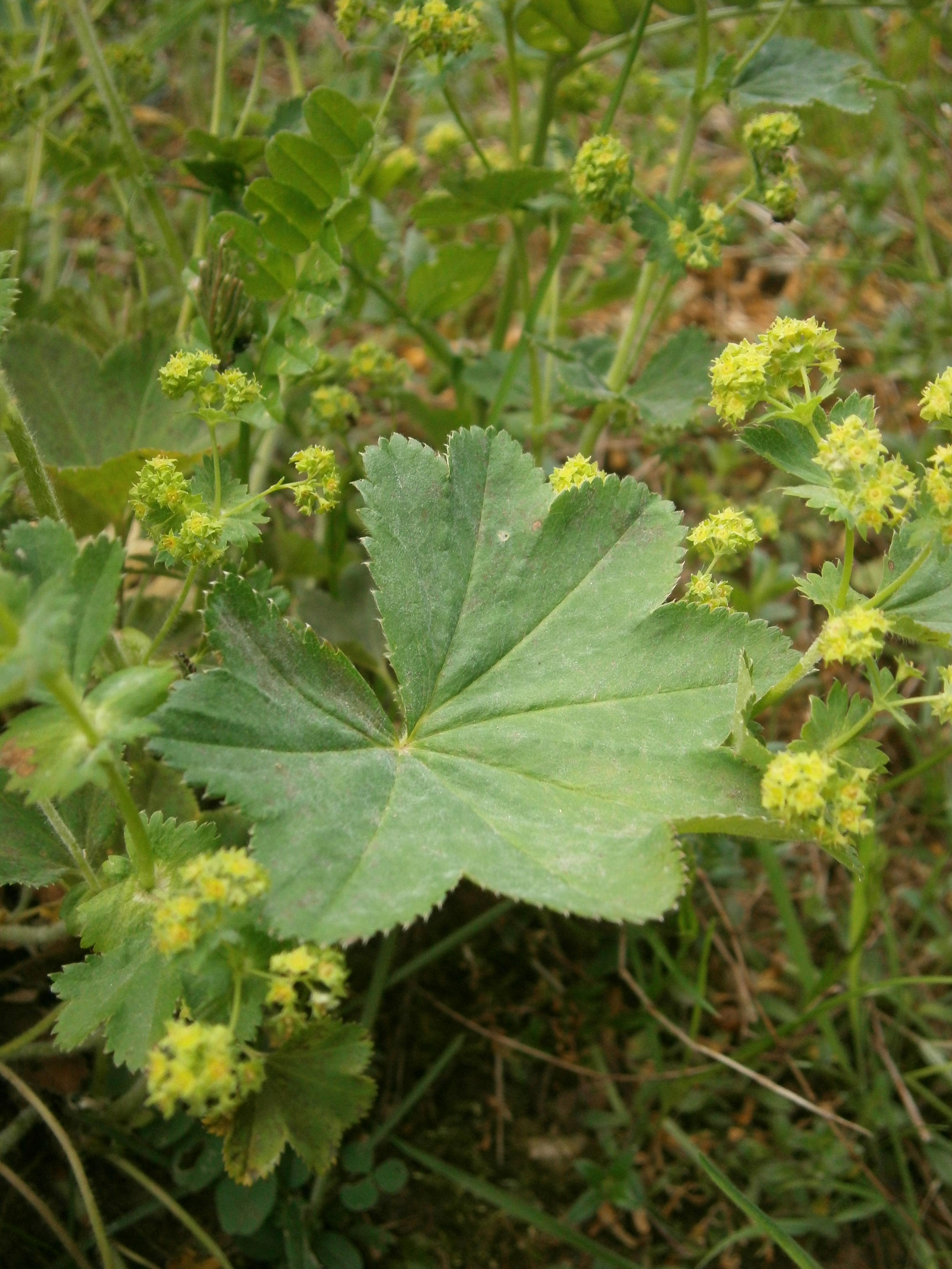 Alchemilla vulgaris leaf